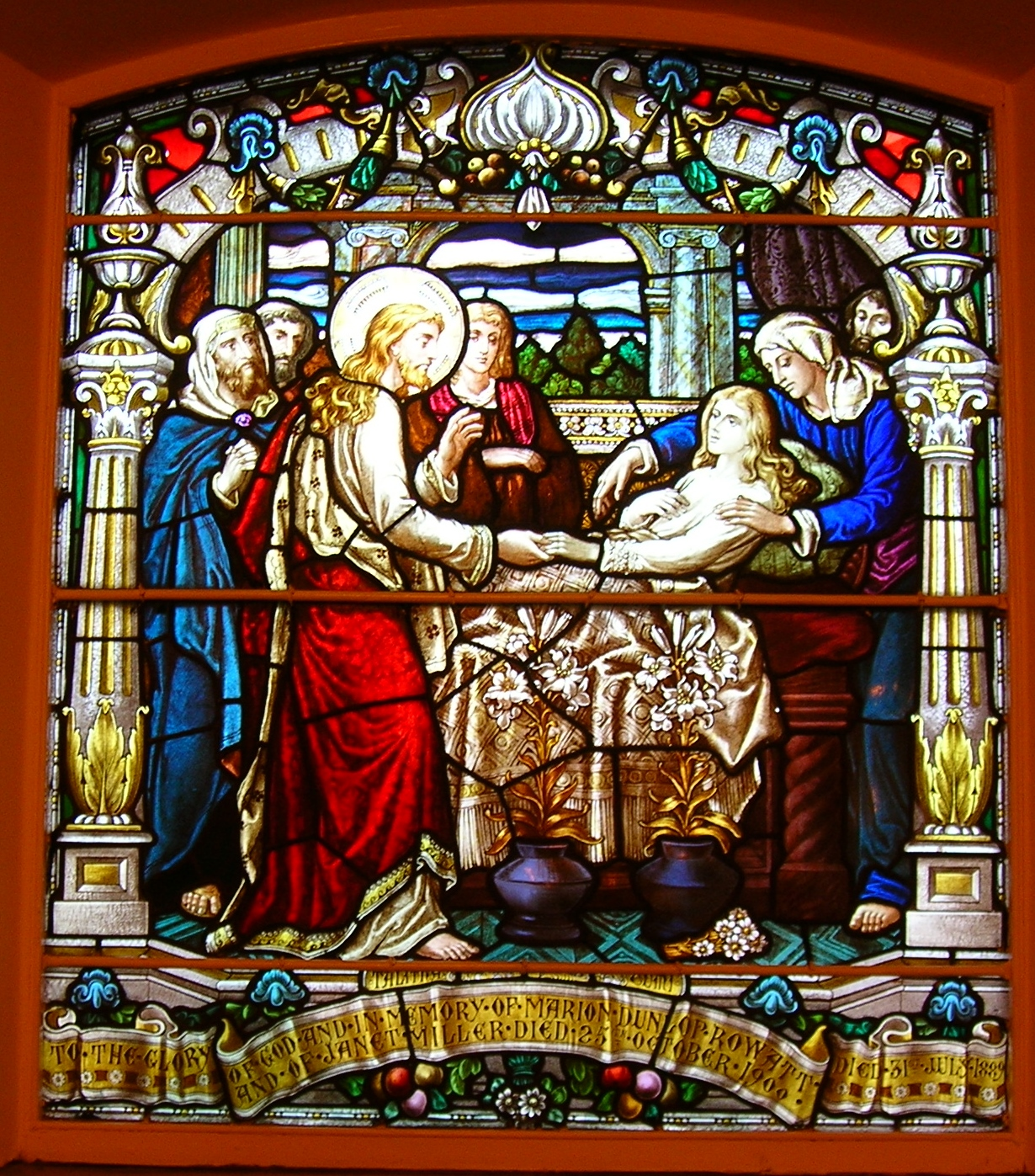 Marion Dunlop Rowatt and Janet Miller memorial window, Irvine Old Parish Church, North Ayrshire, Scotland.